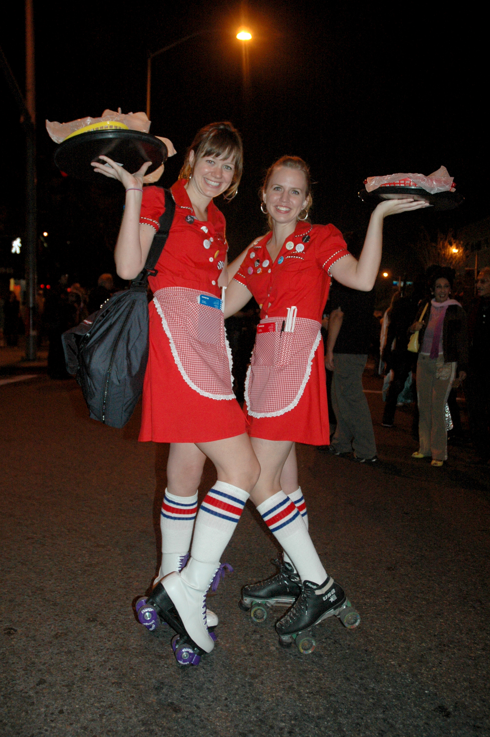 At the West Hollywood Halloween Costume Carnival